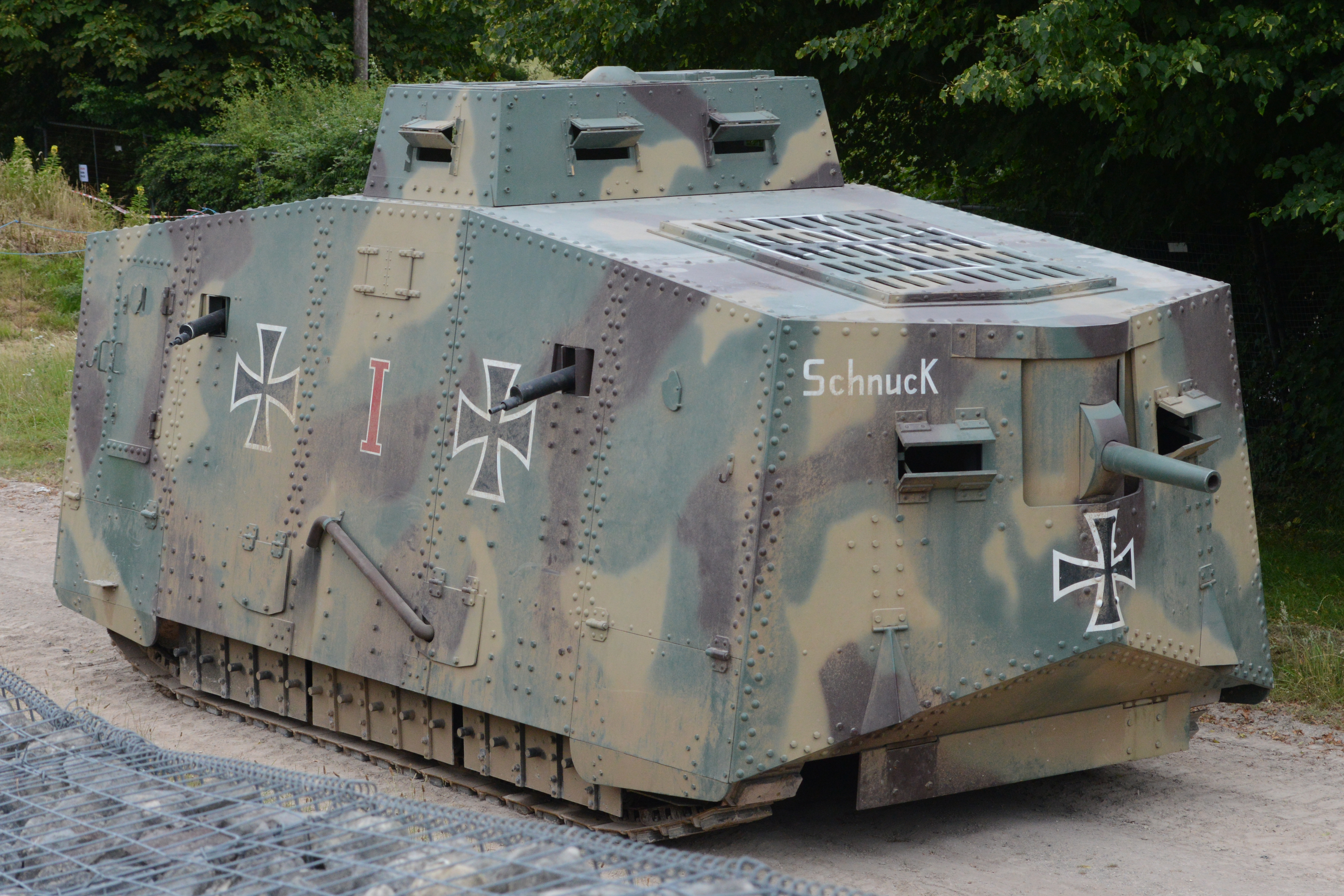 Replica WW1 era German Heavy Tank. The A7V was Germany’s response to British tanks, which had first appeared on the Western Front in September 1916. Twenty were built and saw service between March and October 1918. They were armed with a 57mm gun and six MG08 machine guns. This needed an official crew of eighteen, but as many as twenty five men were often on board. This replica represents chassis No 504, which was captured in August 1918 and displayed on Horseguards Parade in London until gifted to the Imperial War Museum during 1919. Sadly, it was broken up in 1922 with only the main gun saved. The only genuine survivor is in Australia. It is seen preparing to take part in the ‘TankFest 2017’ event held at ‘The Tank Museum’, Bovington Camp, Dorset, UK. 24th June 2017